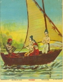 Ravi Varma Lithograph